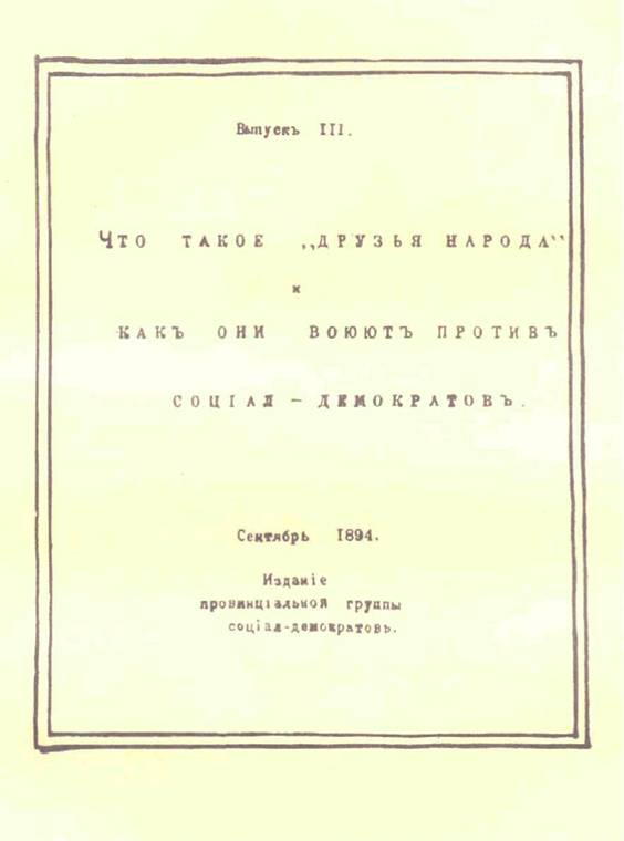 Cover of Lenin's book "Что такое "друзья народа" и как они воюют против социал-демократов?"